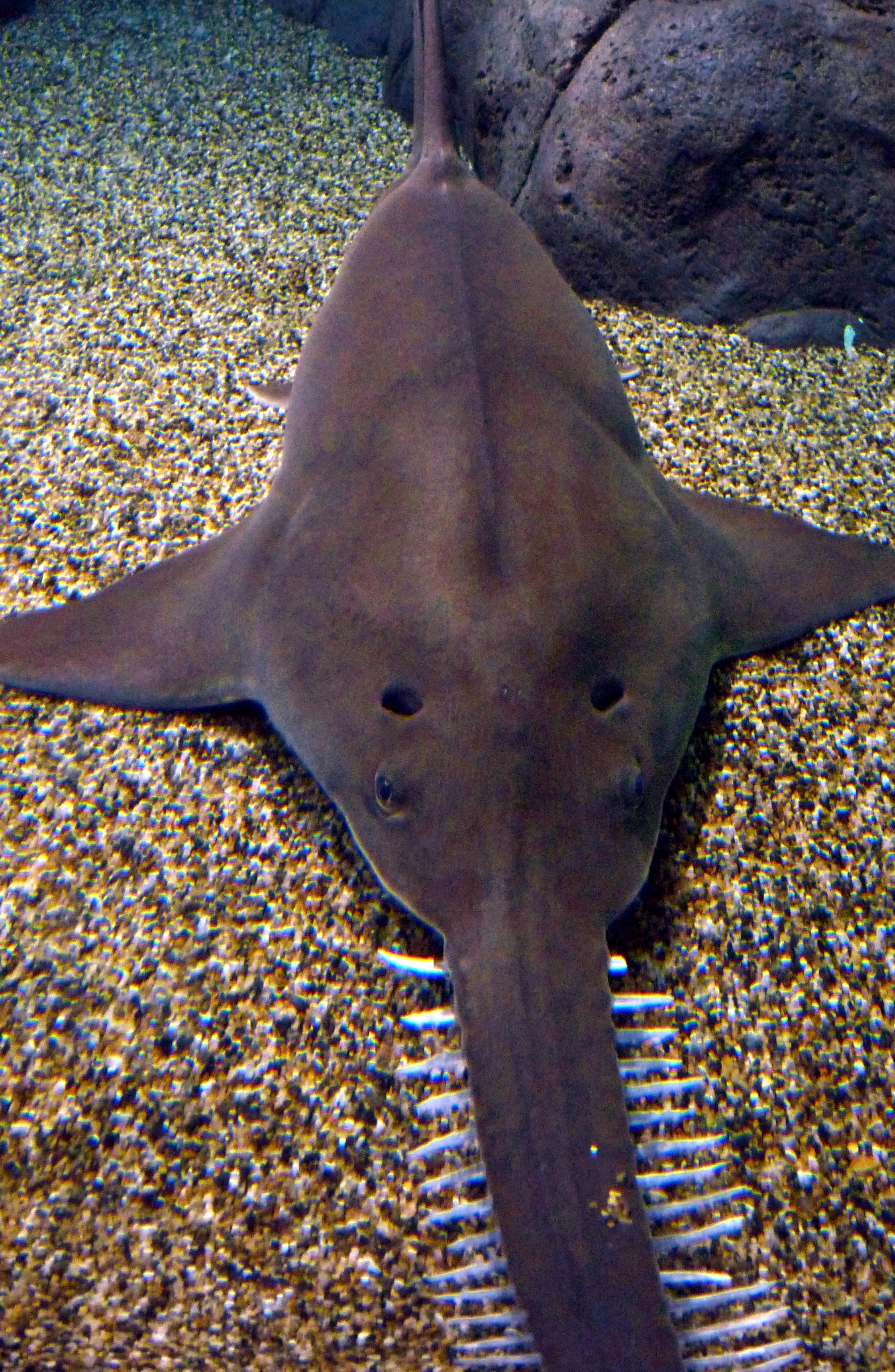 Sawfish